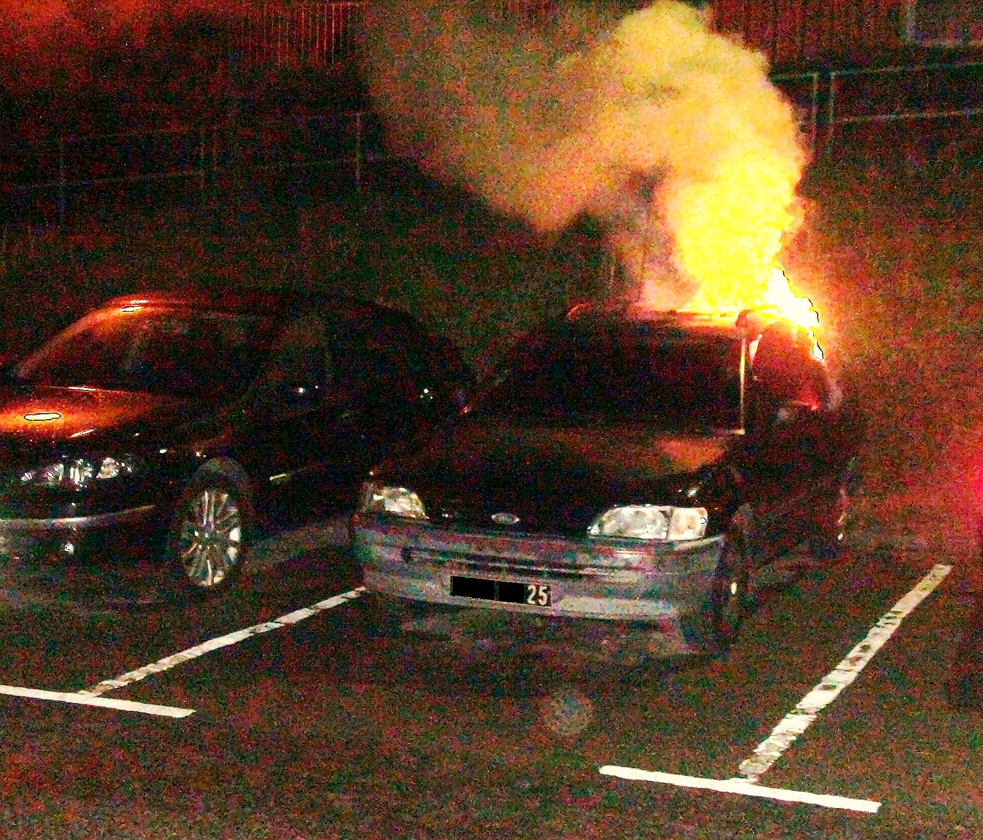 A car (Escort wagon) burned in the area of Planoise, on 2009.